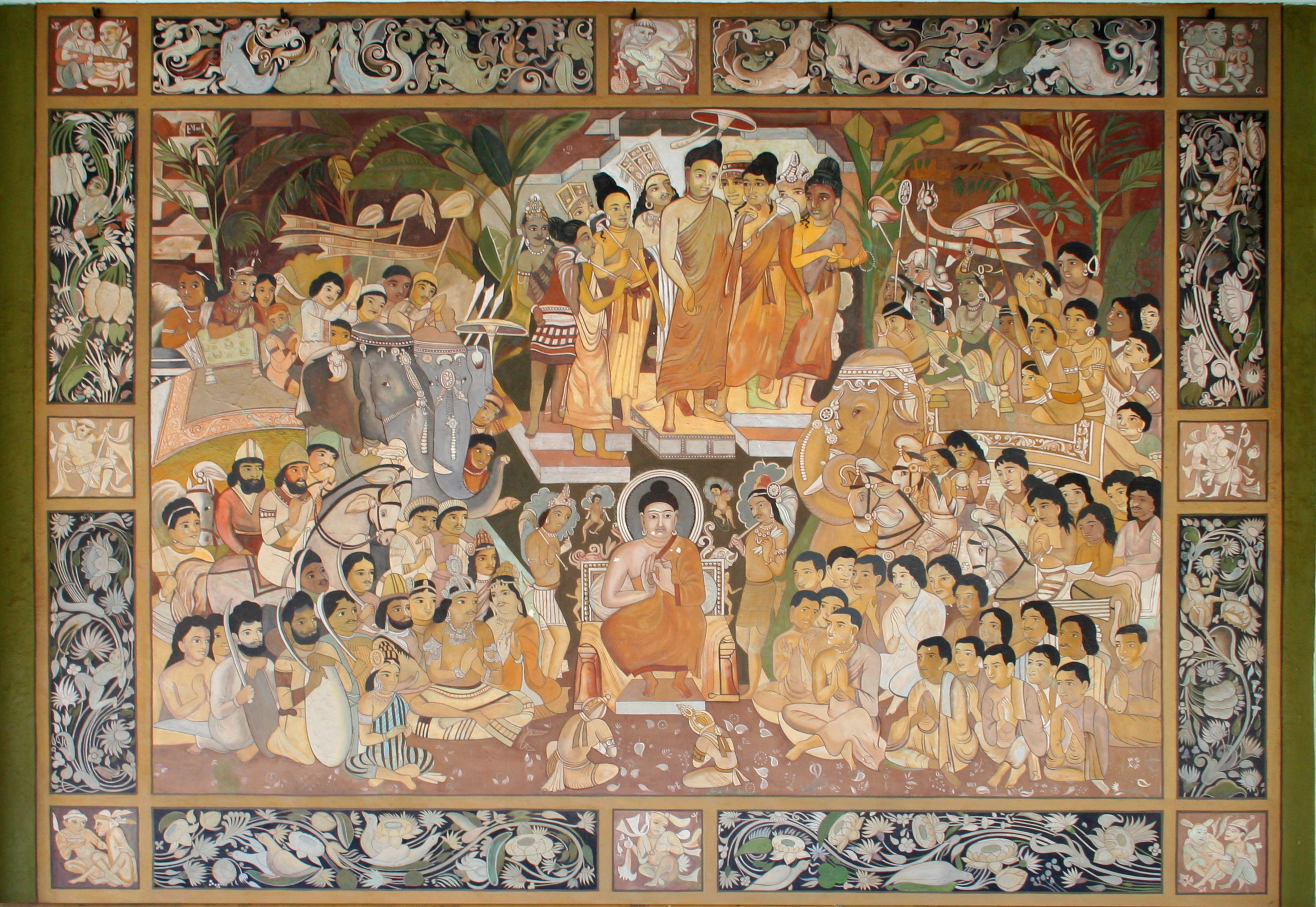 Buddhist mural, Albert Hall Museum, Jaipur, Rajasthan, India. NOTE: This painting of the Adoration of the Buddha (a creative copy of a frieze in Ajanta Cave 17 [1], located on left wall of the antechamber to the sanctum, with border created by composition of various Ajanta elements) was commissioned by Thomas Holbein Hendley (1847-1917) for the decoration of the walls of the hall of the Albert Hall Museum, Jaipur, India, probably circa 1887, and he had the work painted by a local artist variously named Murli or Murali (in Jaipur Nama: Tales from the Pink City by Giles Henry Rupert Tillotson p.156), so the work is pre-1923. This work is otherwise presented as characteristic of the end of the 19th century ("artist Murali and Kishan are good examples of 19th C. painting" in Wall Paintings of Rajasthan [2] p.23). पाटलिपुत्र (talk) 07:27, 30 October 2017 (UTC)